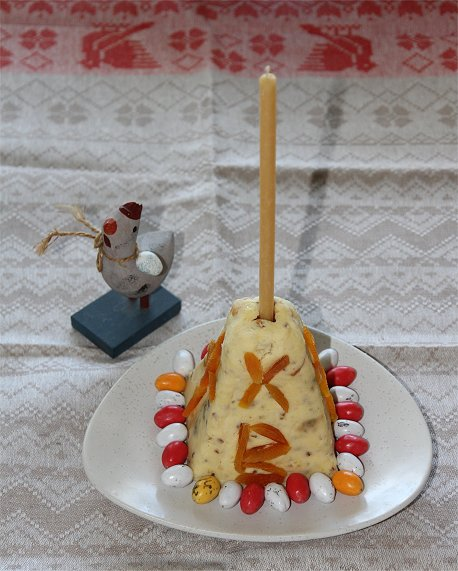 Small paskha (volume some 0,5-0,6 liters). Paskha is traditional Easter time dish especially in the eastern Finland (like Karelia) and among members of the Eastern Orthodox Church. Note: the link to the legal code of license was not not working so it so I cannot be sure it is correct; I accept only use/ license where attribution to the original contributor shall be kept if file is used later.